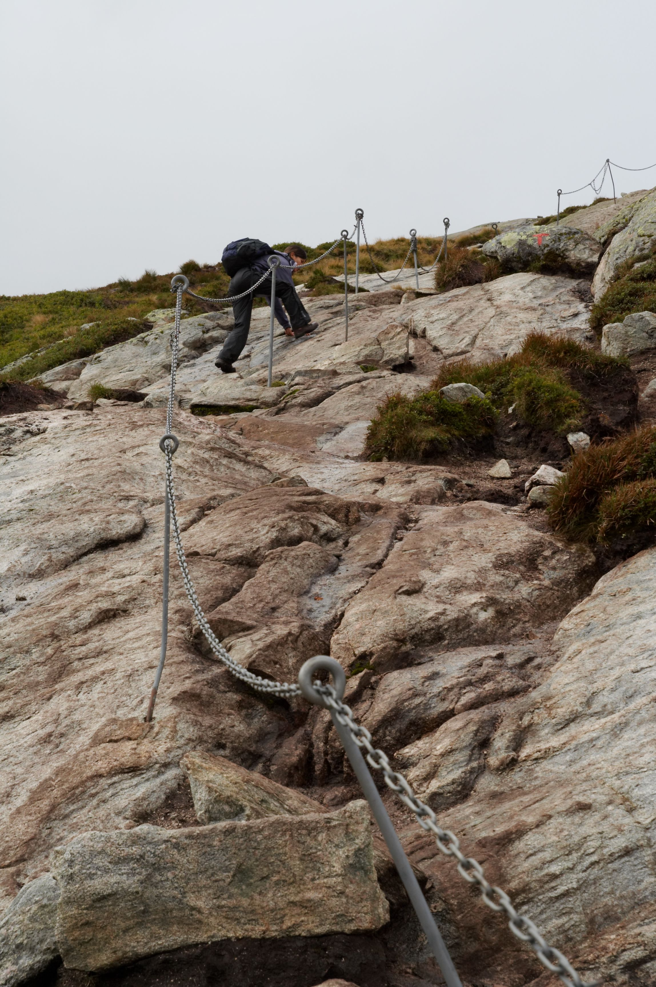 Kjerag (Norway) ... so much so that after a while, you're pulling yourself up with the chain. Remember... what goes up, must come down. :)